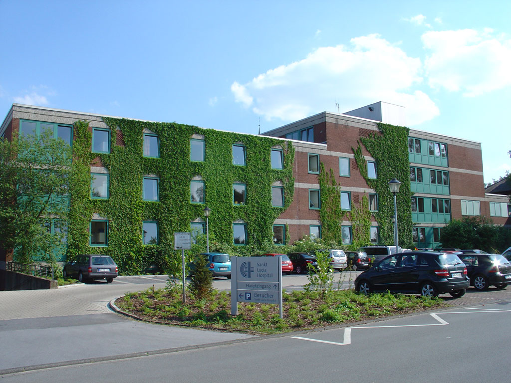 St. Lucia Hospital in Harsewinkel